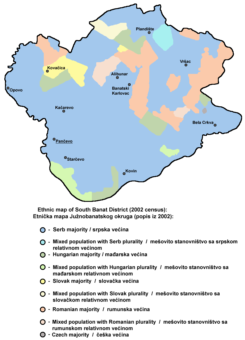 Ethnic map of South Banat District - 2002 census (data by settlements).Serbian: Етничка мапа Јужнобанатског округа - попис из 2002 (подаци по насељима).